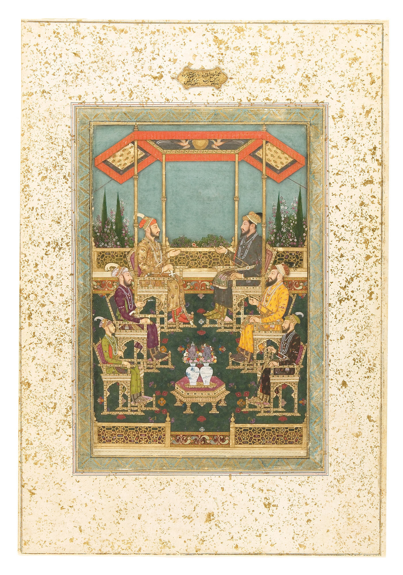 Bhavanidas. Darbar scene with four sons and two grandsons of Shah Jahan. 1700-1710, San Diego Museum of Art.